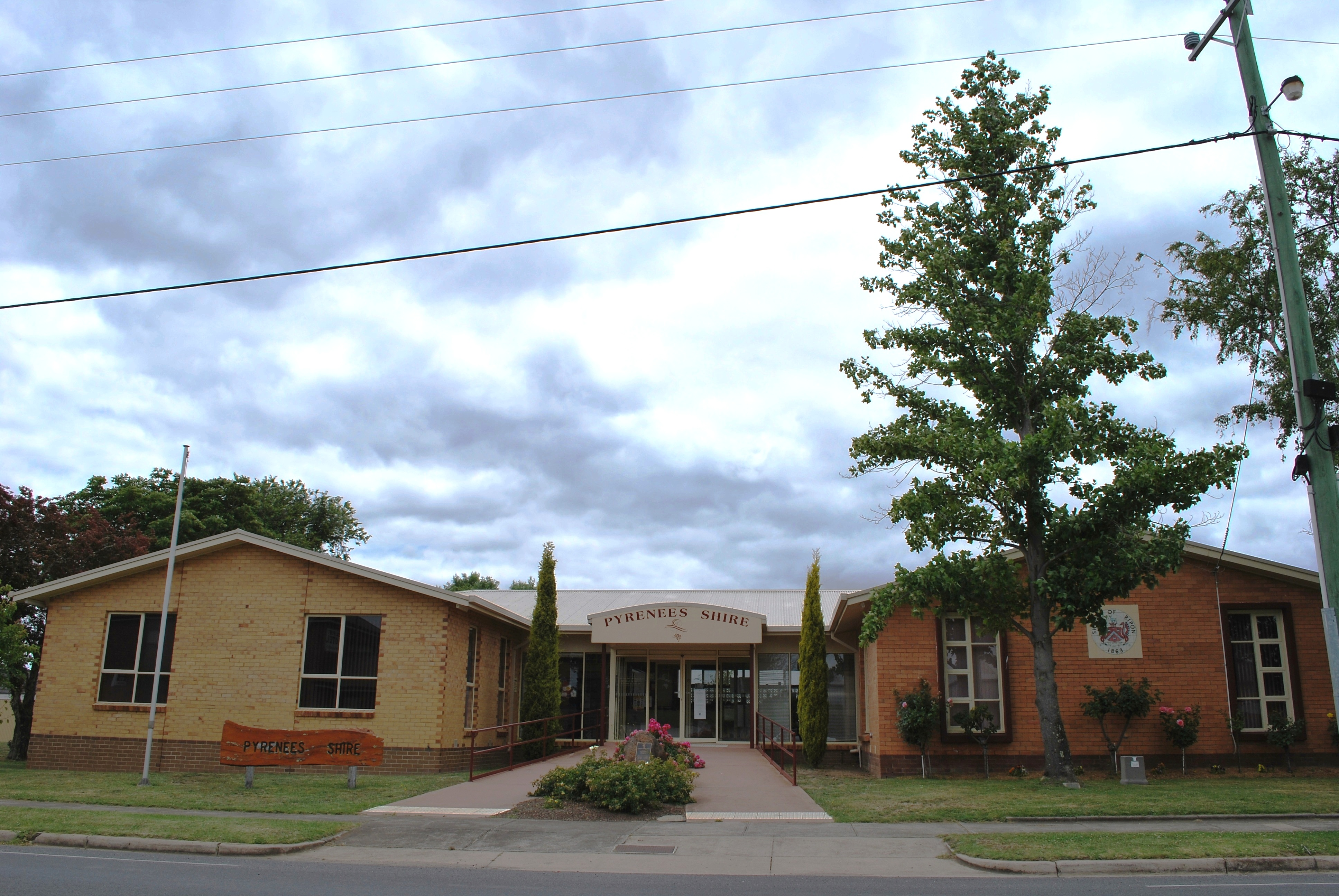 Shire of Pyrenees offices, the former Shire of Ripon offices, at Beaufort, Victoria